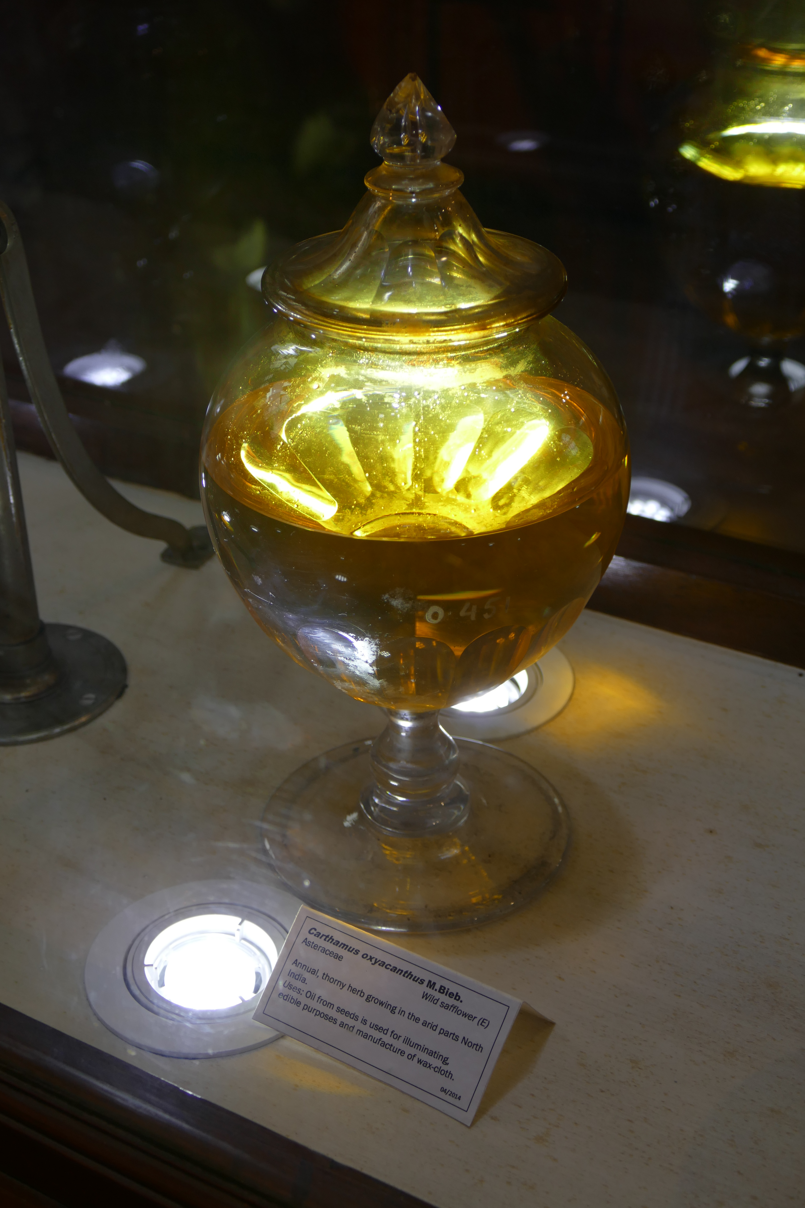 Natural products on exhibit at the Indian Museum, Kolkata - Carthamus oxyacanthus oil